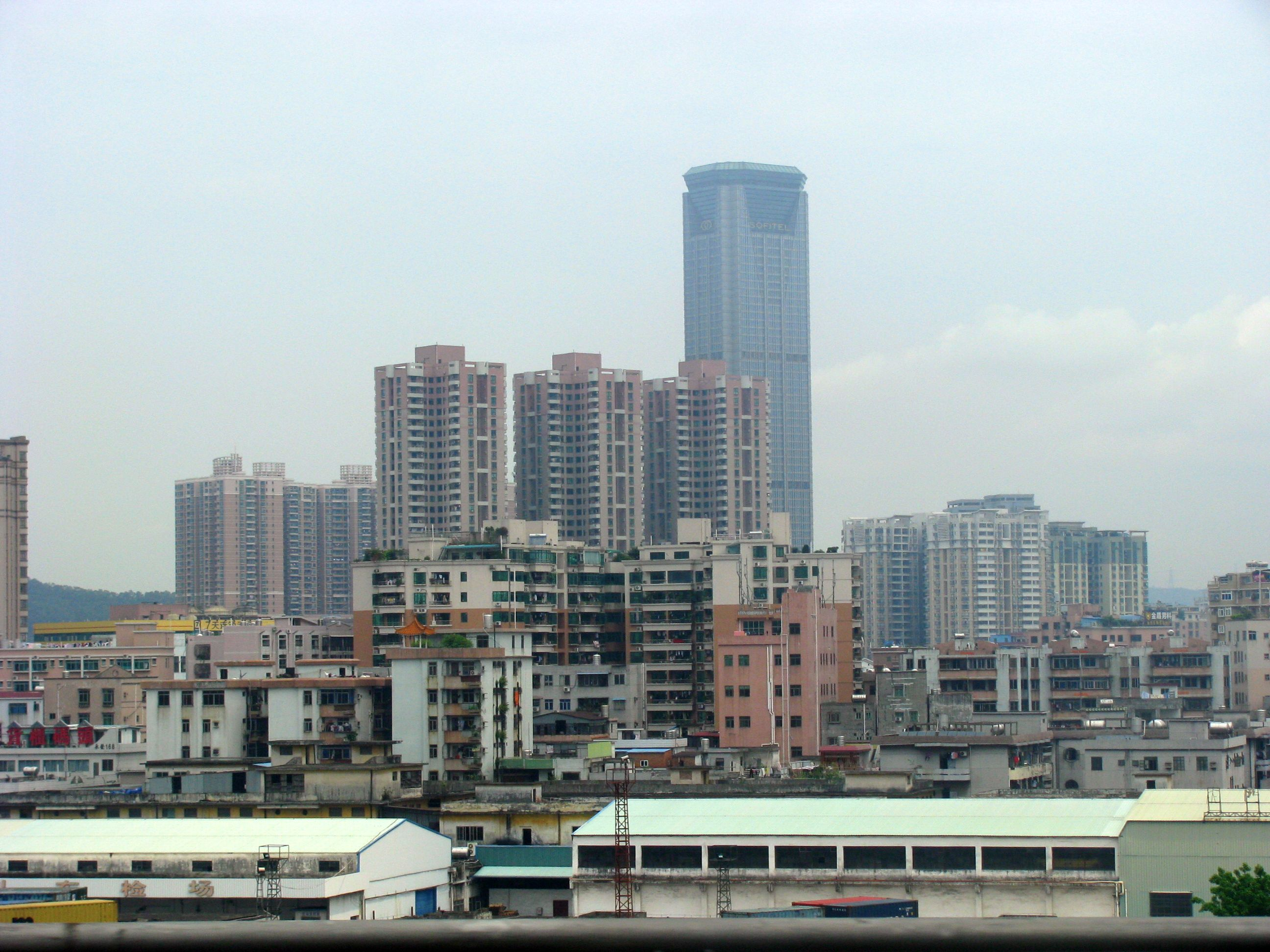 Dongguan in Guangdong, China.